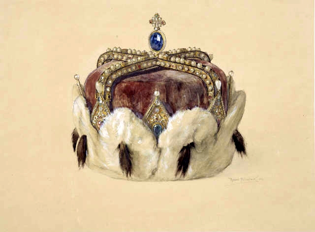 Drawing of the archducal hat